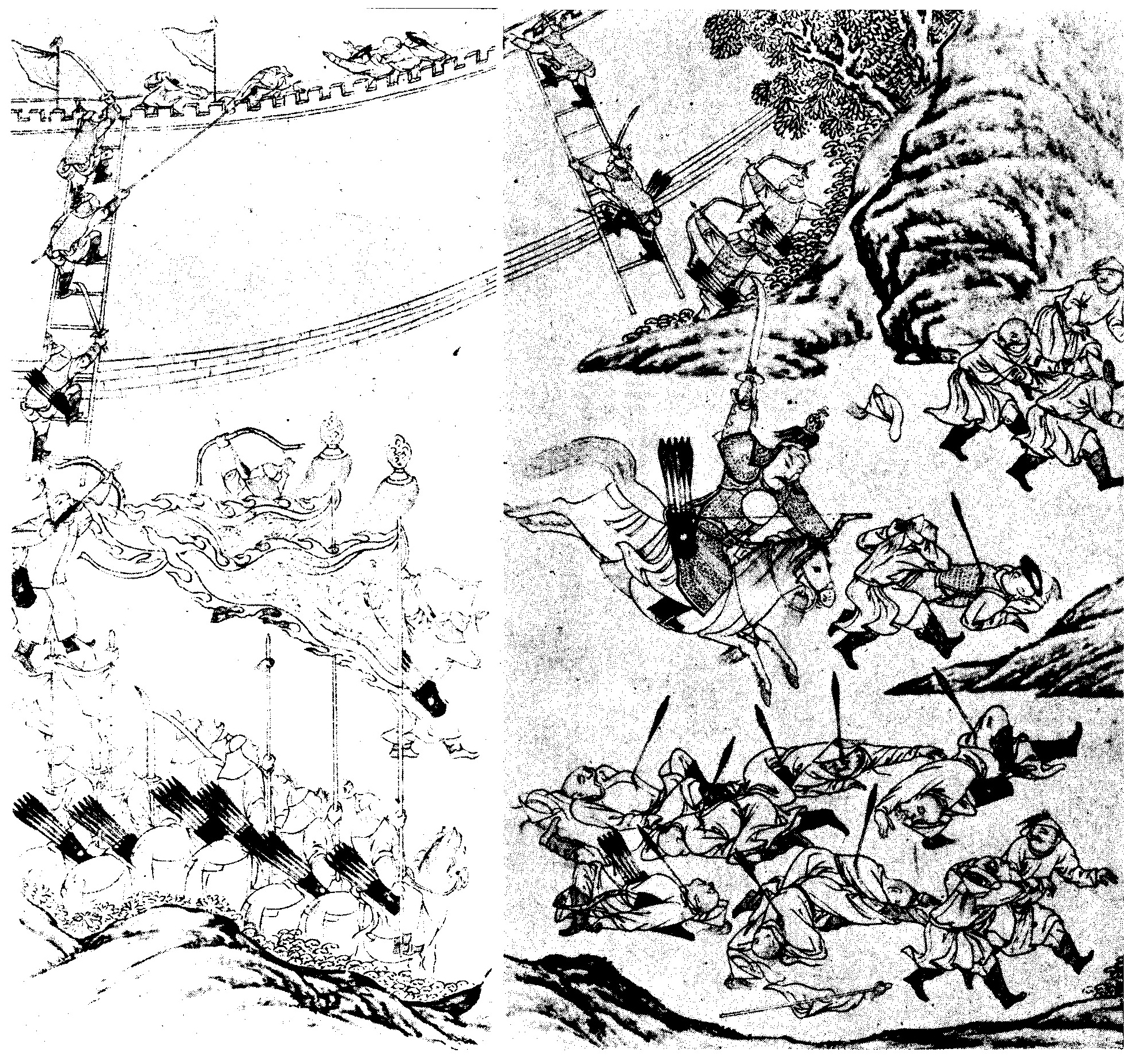 弩尔哈齐獨戰四十人